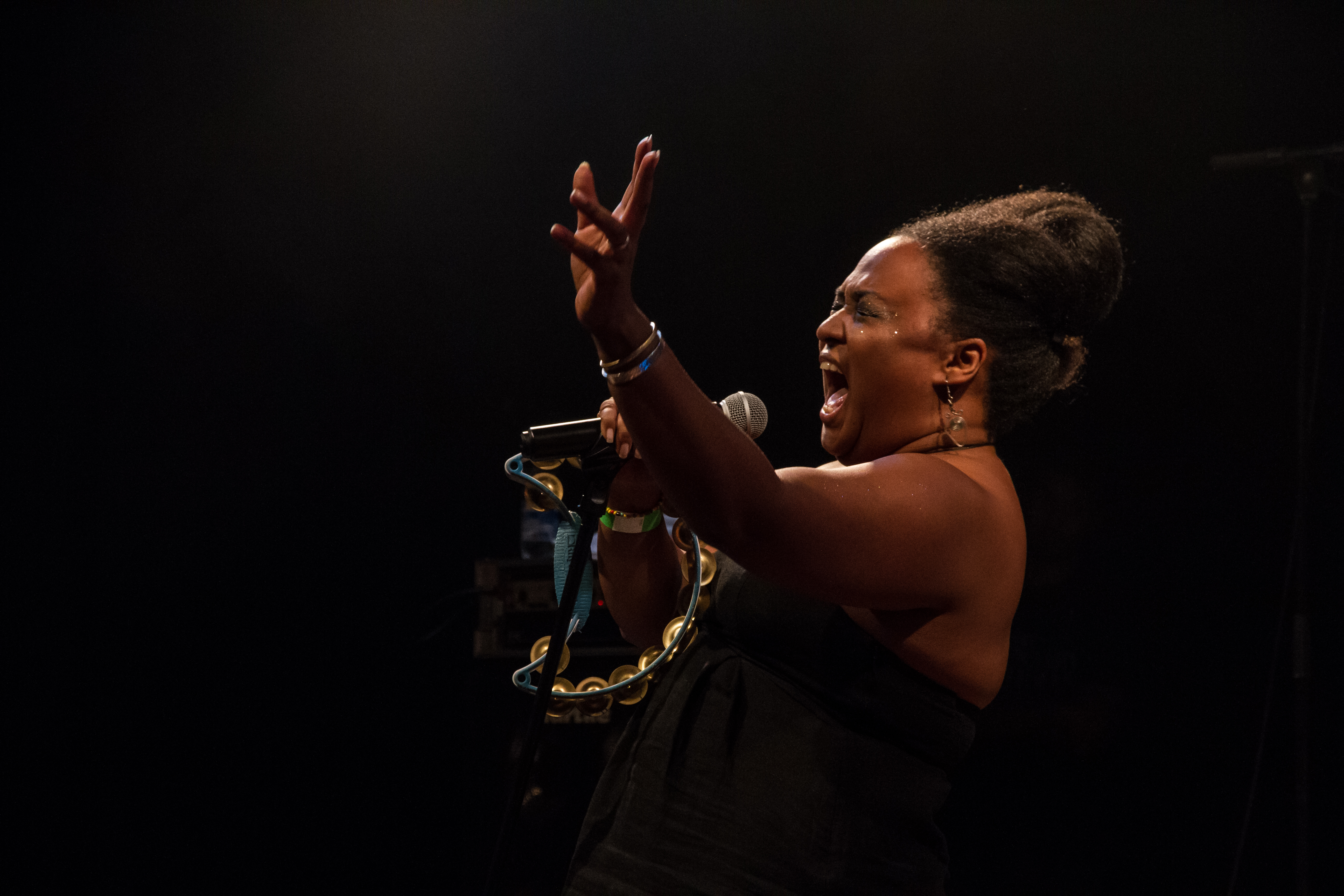 The Bellrays at Platzhirsch Festival in Duisburg. Germany